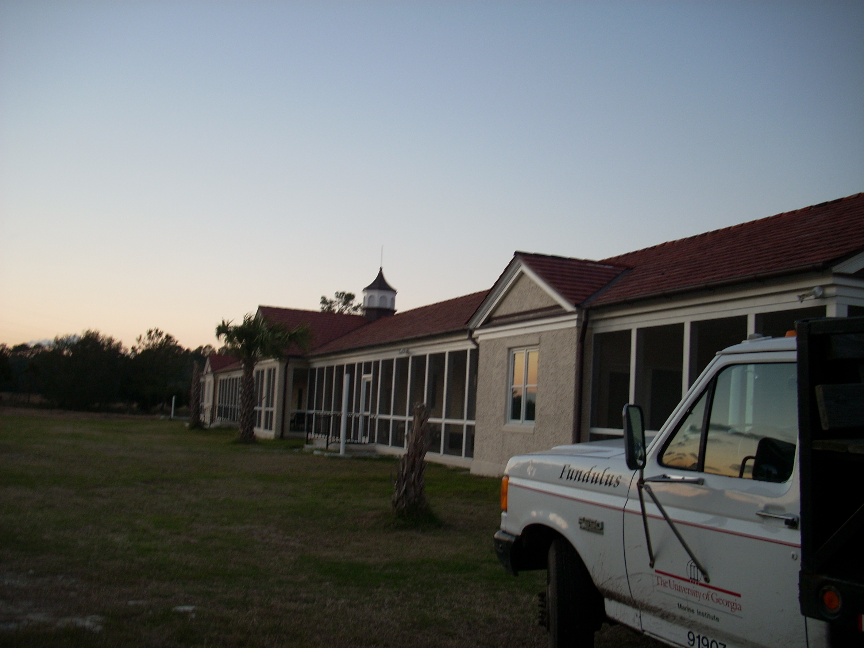 The dorm rooms at the UGA Marine Institute on Sapelo Island, Georgia